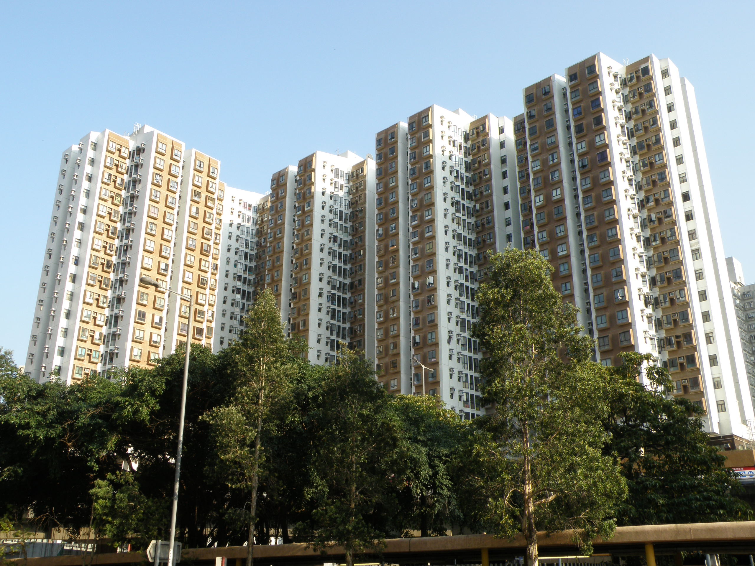 Perfect Mount Garden in Shau Kei Wan, Hong Kong.